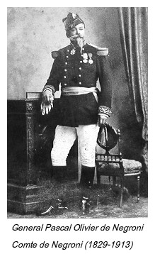 Image of General Pascal Olivier Count de Negroni (April 4, 1829 - October 22, 1913). Late 19th / early 20th century lithograph. Note: Identity check can be accomplished by consulting: Negroni, Hector Andres. The Negroni family: Genealogical, demographic, and nobiliary study from its 11th century origins to its 20th century branches in Italy, France, and Puerto Rico. Madison, AL, 1998, pp. 45-46.